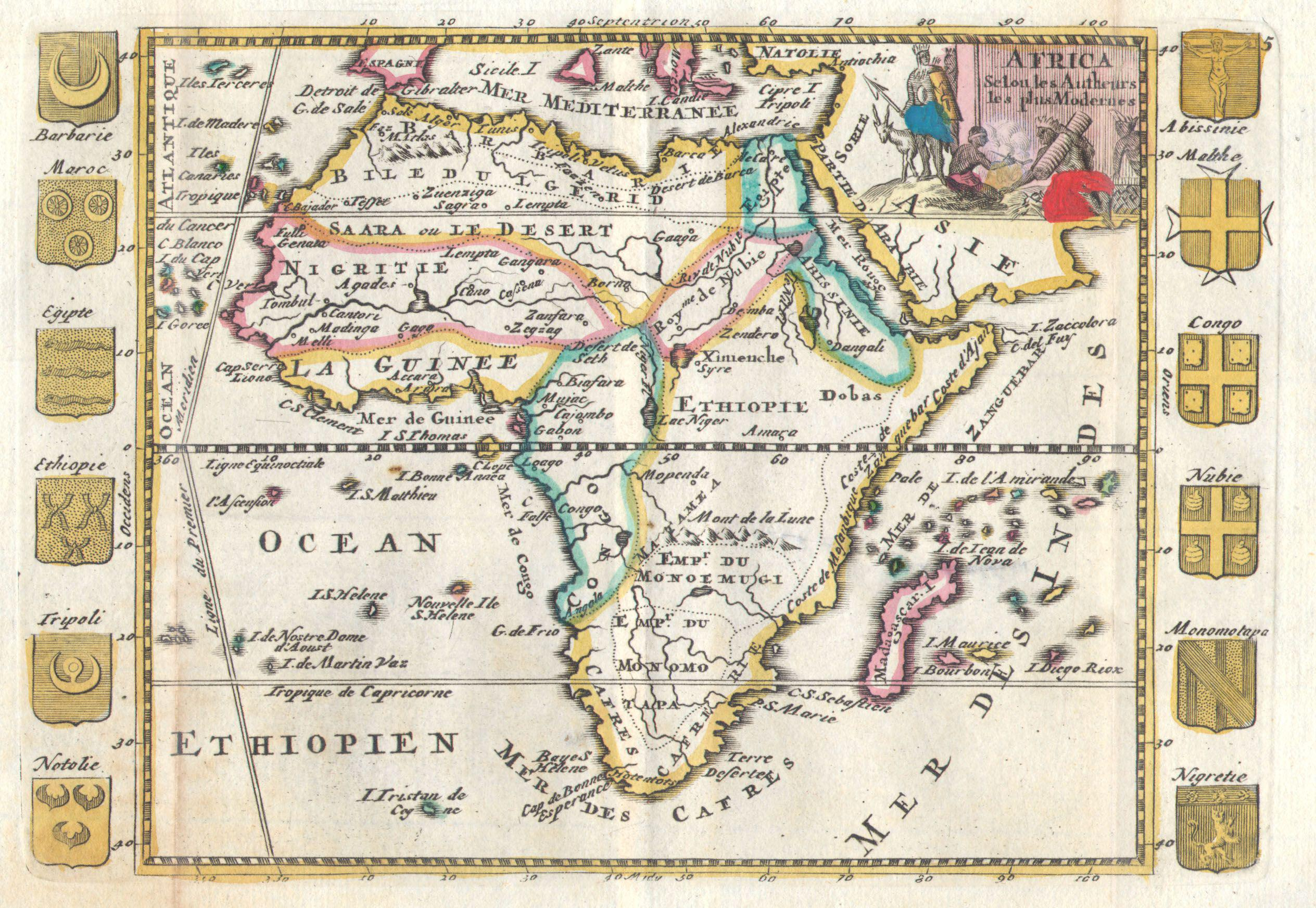 A very scarce, c. 1710, map of Africa by Daniel de la Feuille. Depicts the continent of Africa form an early 18th century perspective. The Niger River is mapped with surprising accuracy, especially considering its highly inaccurate mappings nearly 100 years later in the 19th century. The Mountains of the Moon, supposed source of the Nile, are located considerably south of where they appear in other maps of the period. Early Ptolemaic maps do note these mountains as well as two large lakes just to the north. Though the Mountains are present, both of these lakes are absent indicating an interesting evolution, away from the Ptolemaic conception, in African cartography. In southern Africa to large empires are named, Monoemugi and Monomotapa. This is the great southern African gold mining region and these names are likely taken from the names of prominent Congolese tribal rulers. Surrounding the map are the curious addition of twelve armorial crests. Crests include those of both Arab and African powers in the region including: Barbarie (Algier, Tunis, Tripoli, Barca ) Maroc , Egypt, Notolie, Malta, Congo, Nubia, Monomotape, and Nigreitie. Many of these kingdoms and their associated armorial crests are purely conjectural. Ethiopia for example is indicated as distinct from Abyssinia with two separate crests, both unrelated to any actual crests that the kingdom seems to have used. The allegorical title cartouche in the upper right quadrant features several Africans cooking over a fire while an Impala or Antelope looks on. This map was originally prepared for inclusion as chart no. 5 in the 1702 edition of De la Feuille's Atlas Portatif. This map is from the later, 1710 edition.